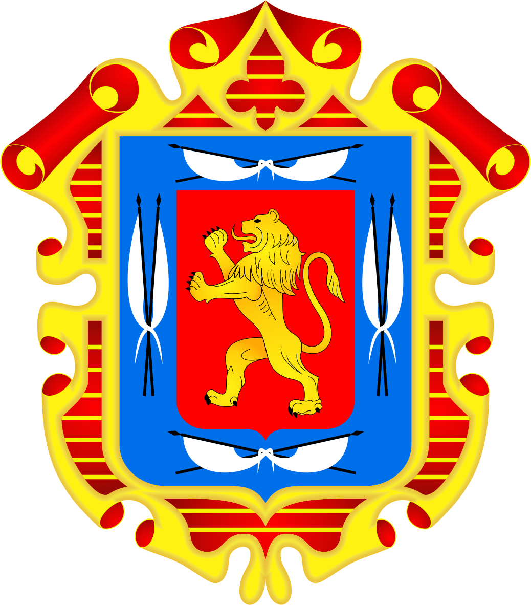 District of Chachapoyas - Chachapoyas Province - Amazon Region